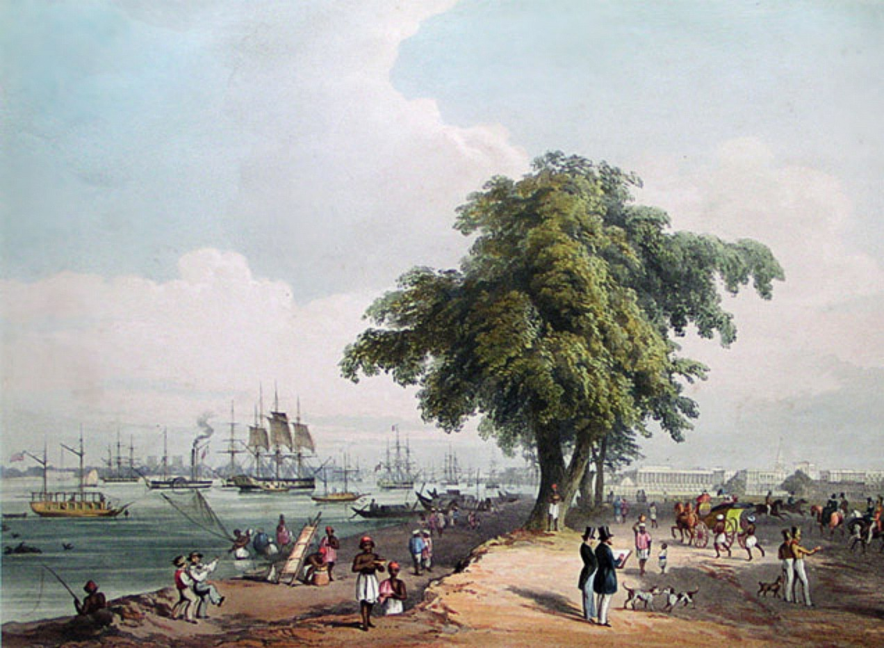 "Town and Port of Calcutta from 'Views of Calcutta and its Environs' (London, 1848)"